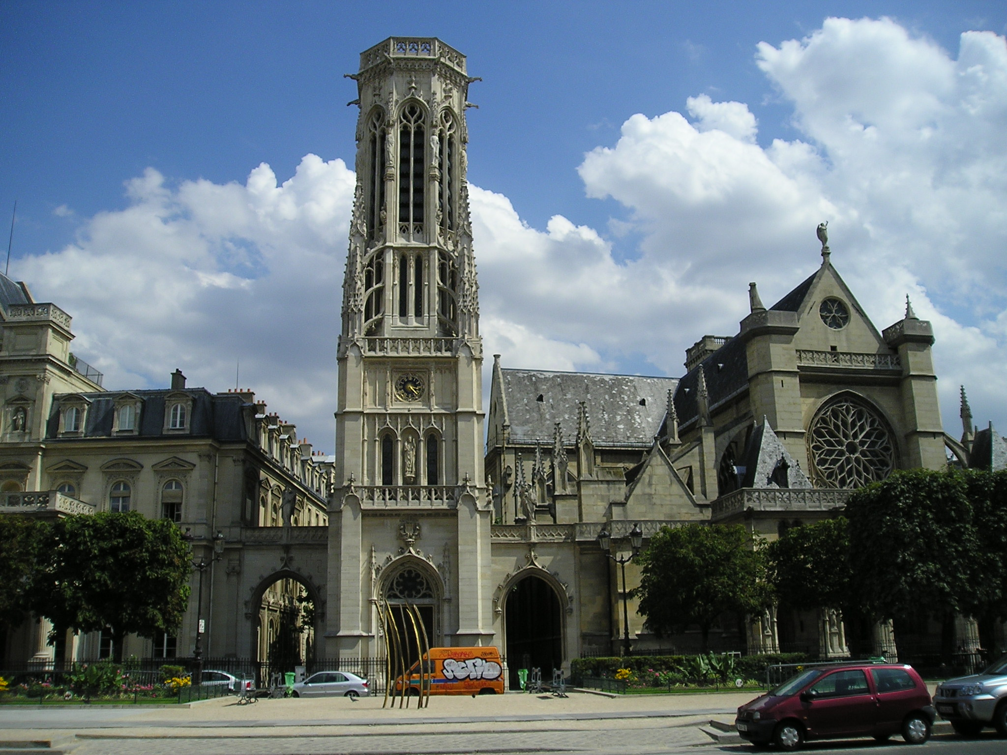 Church Saint-Germain-l'Auxerrois in Paris.